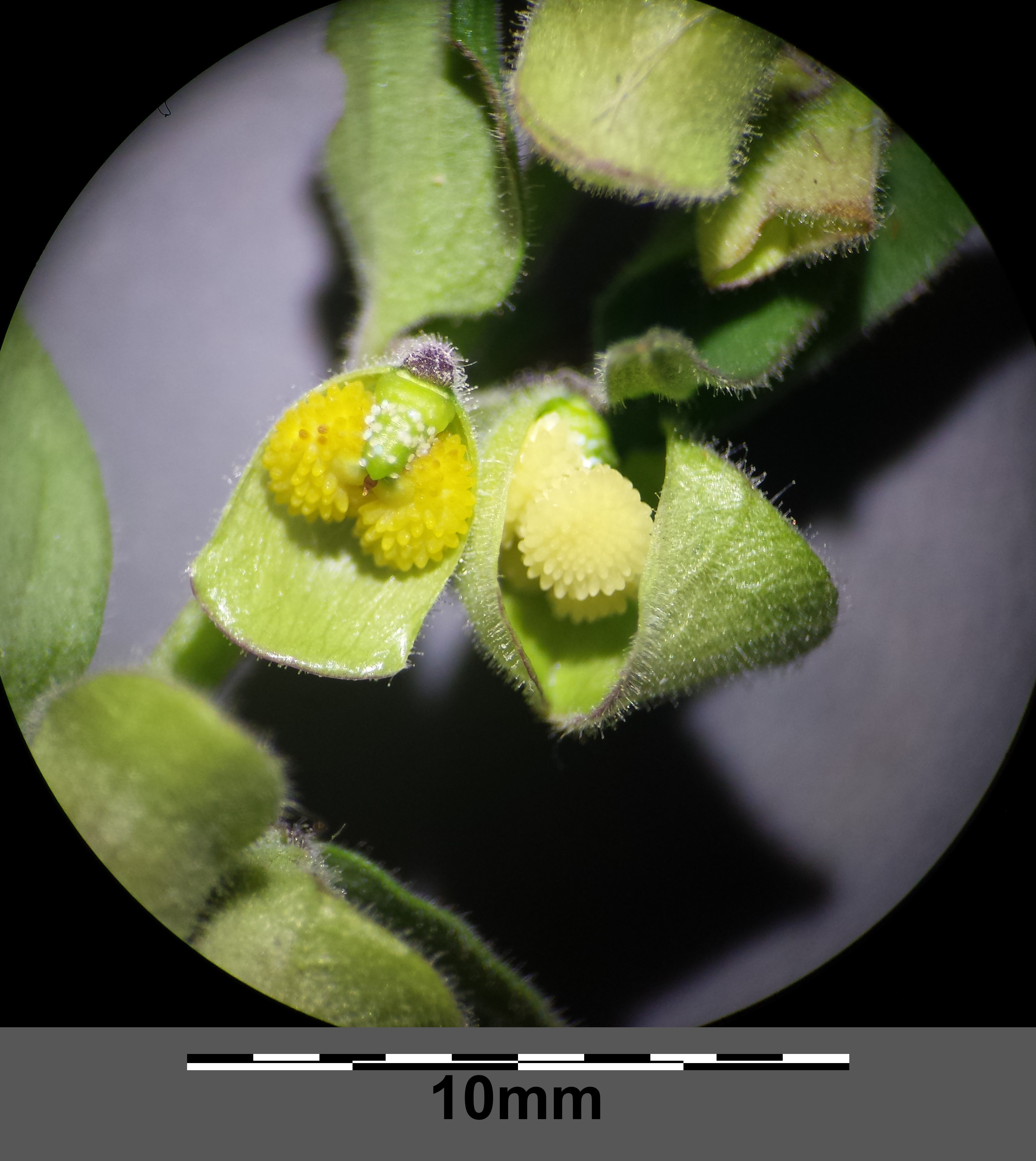 Fruits with fruitlets Taxonym: Scutellaria hastifolia ss Fischer et al. EfÖLS 2008 ISBN 978-3-85474-187-9 Location: Mitterluss near Zurndorf, district Neusiedl am See, Burgenland, Austria - ca. 130 m a.s.l. Habitat: wet meadows